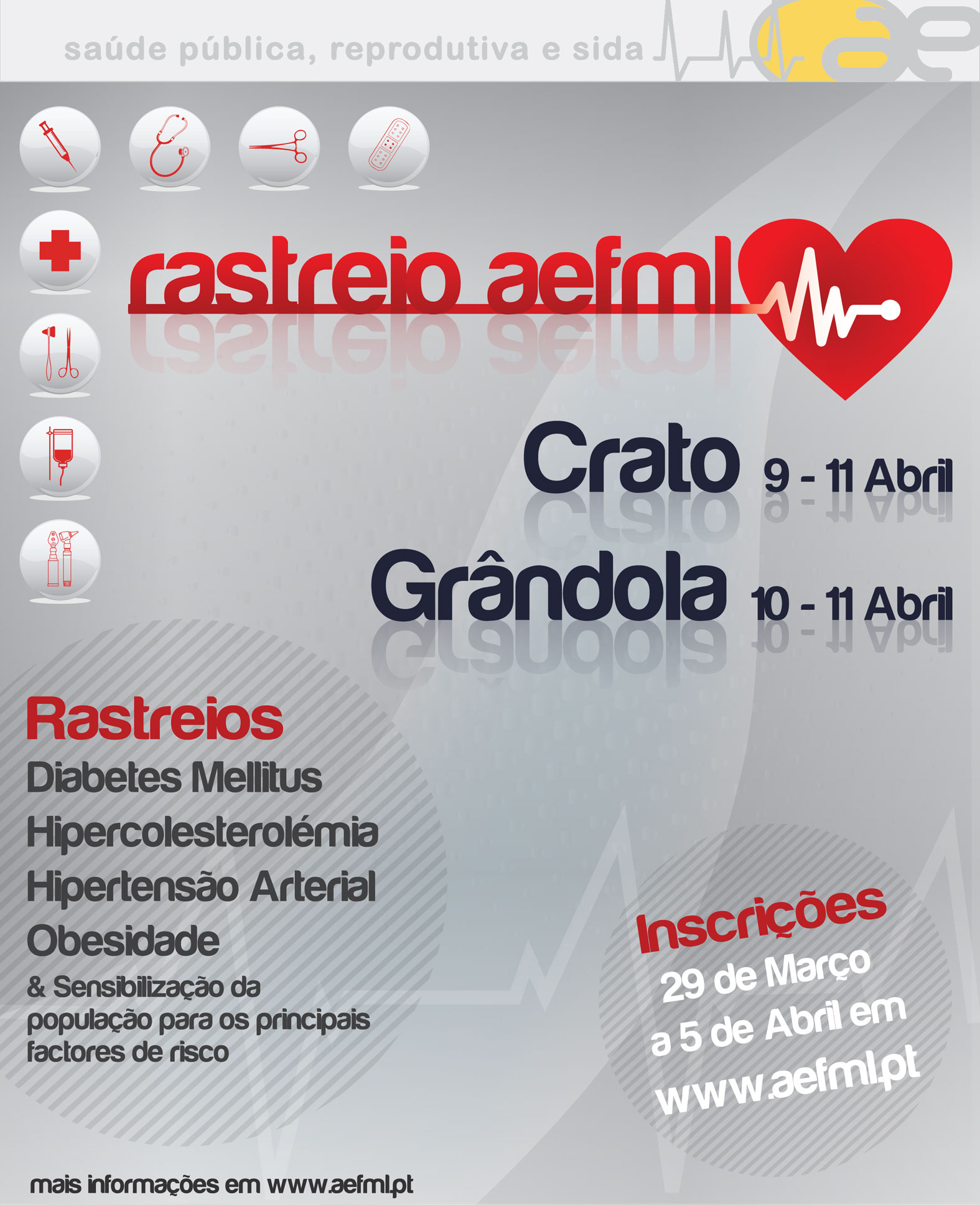 Disease Tracking Campaign of the Student Committee of the Lisbon Faculty of Medicine